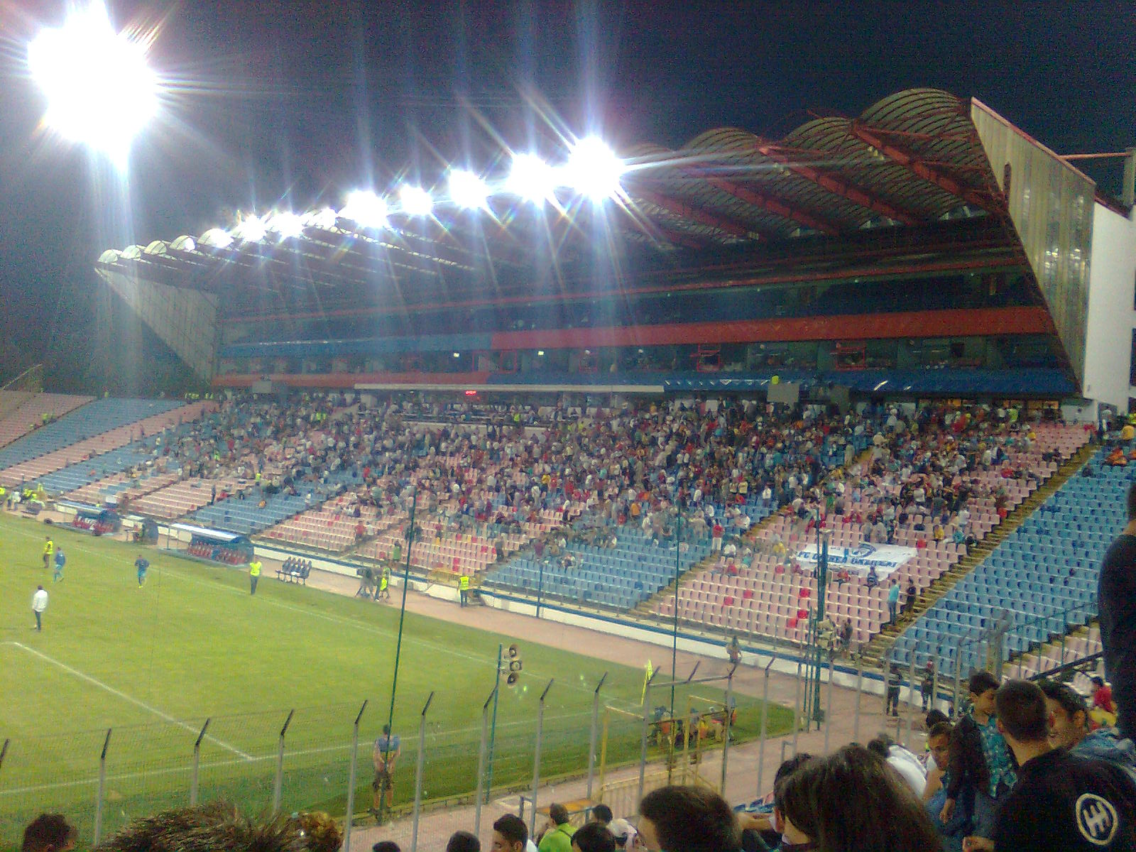 The Stadionul Steaua Main Stand at 2010–11 UEFA Champions League Third qualifying round match between Unirea Urziceni and Zenit St. Petersburg